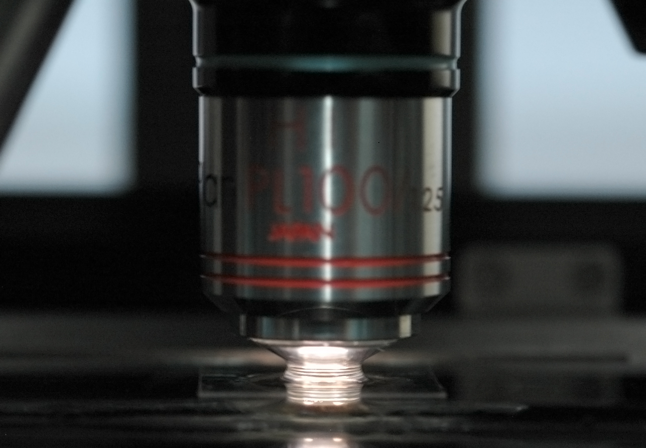 Immersion_microscopy by Olympus Plan PLL x100 lens.